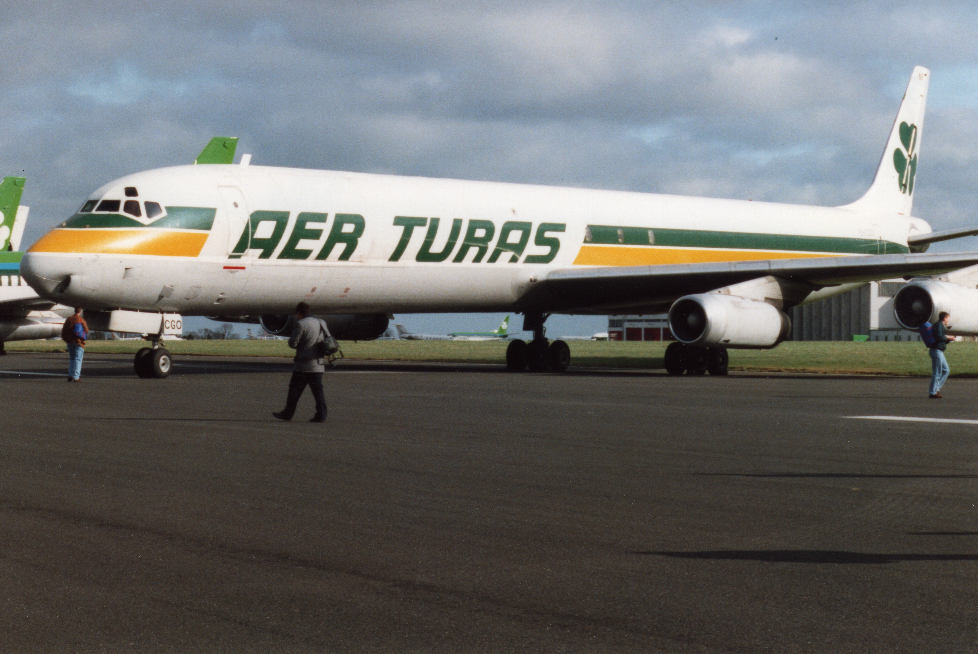 Aer Turas (EI-CGO) Douglas DC-8-63F aircraft, Dublin Airport, Dublin, Republic of Ireland, February 1993